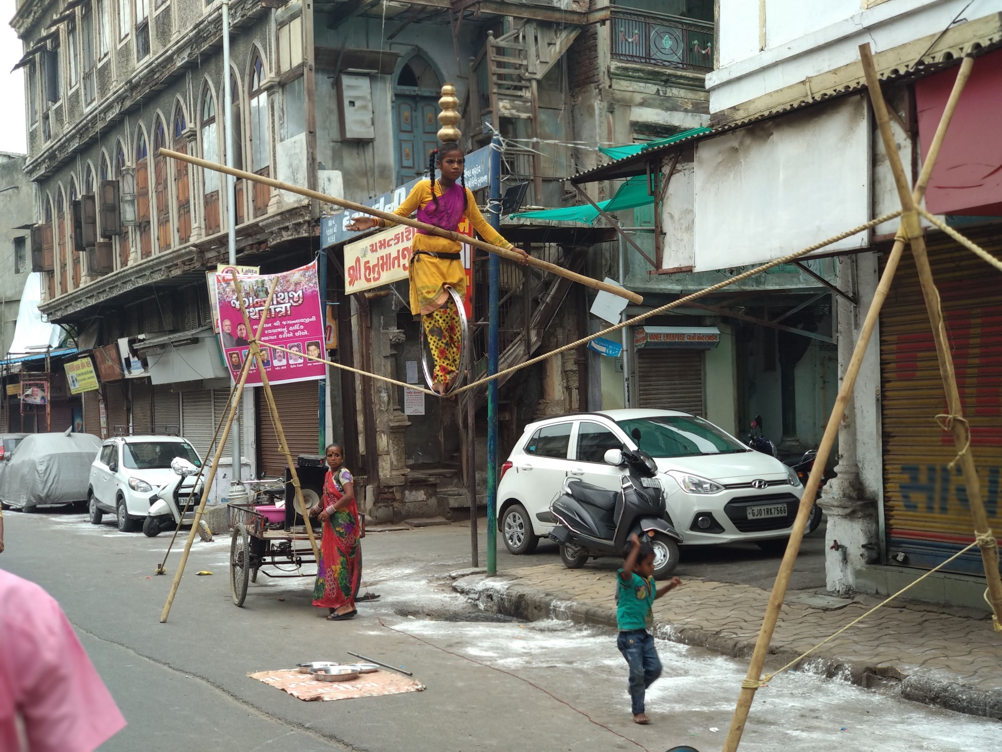 NAT girl performing rope act to earn hard money for her family, Ahmedabad, Gujarat, India.